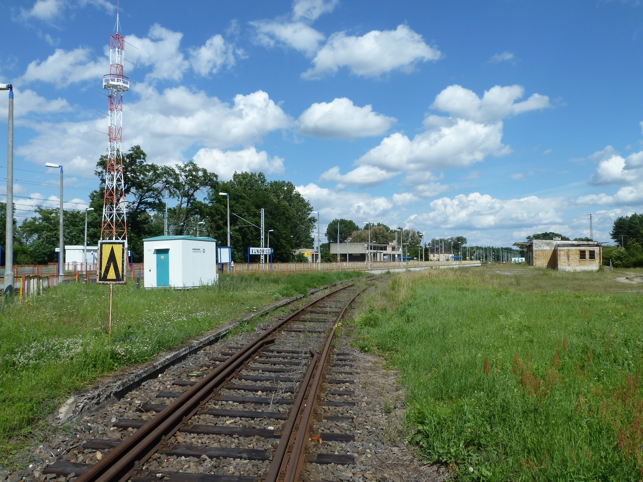 Kunowice train station, former platform of Cybinka branch